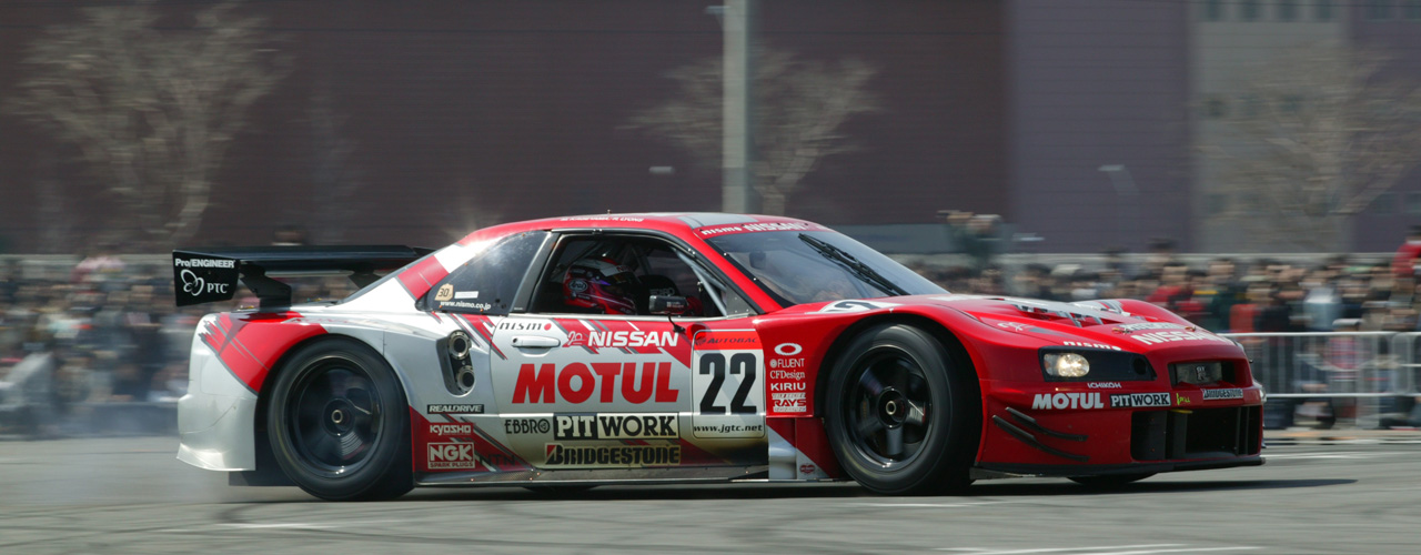 R34 Skyline 2003 MOTUL PITWORK GT-R in exhibition